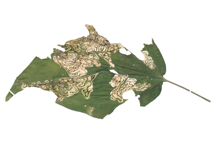 Chrysoesthia drurella, Minen